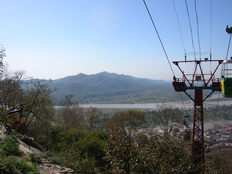 Ropeway to Mansa Devi Temple, Haridwar.